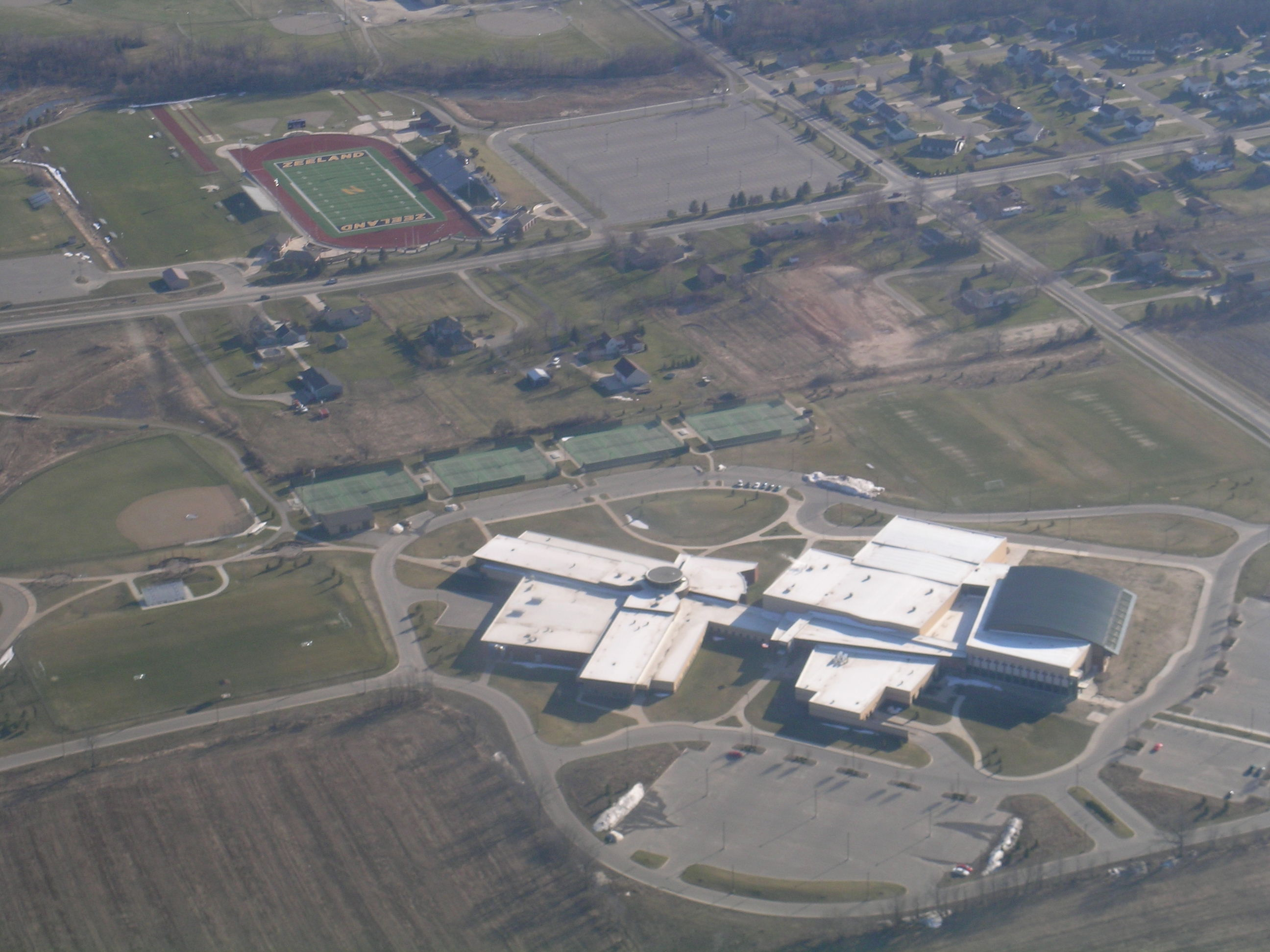 Zeeland Michigan West High School